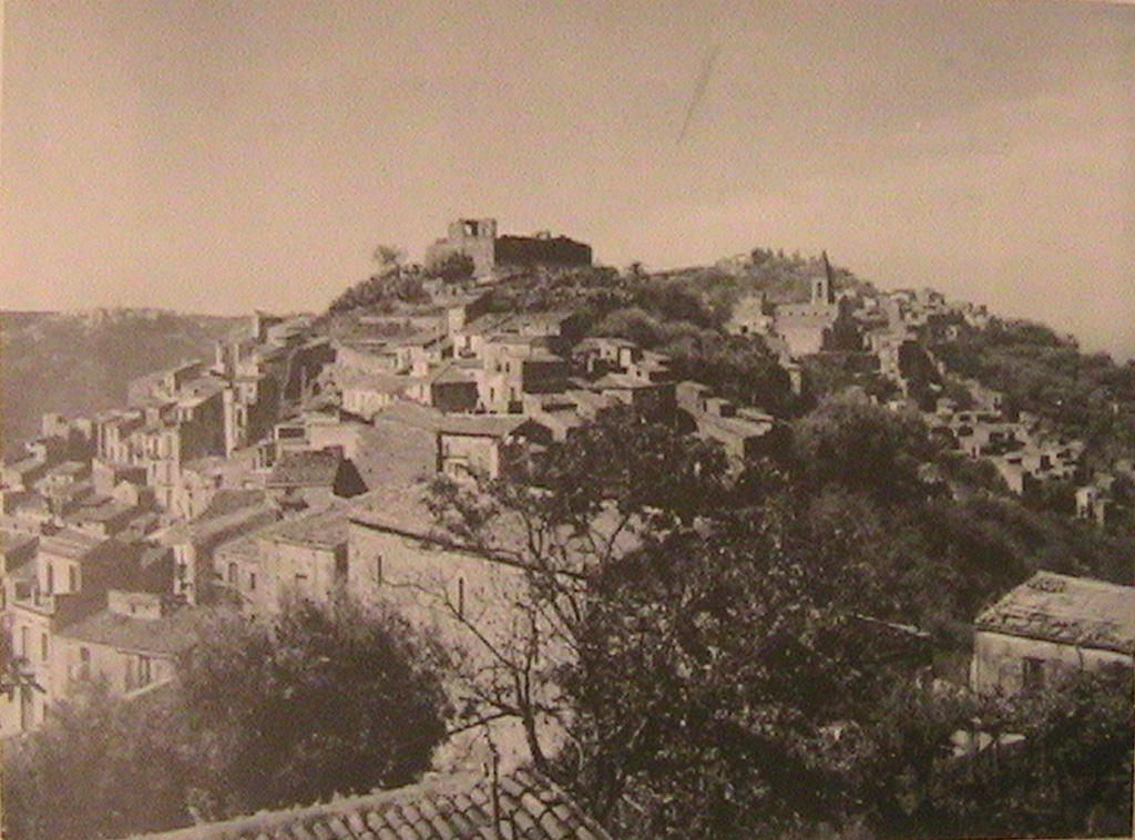 View of Ficarra in the 1950s.